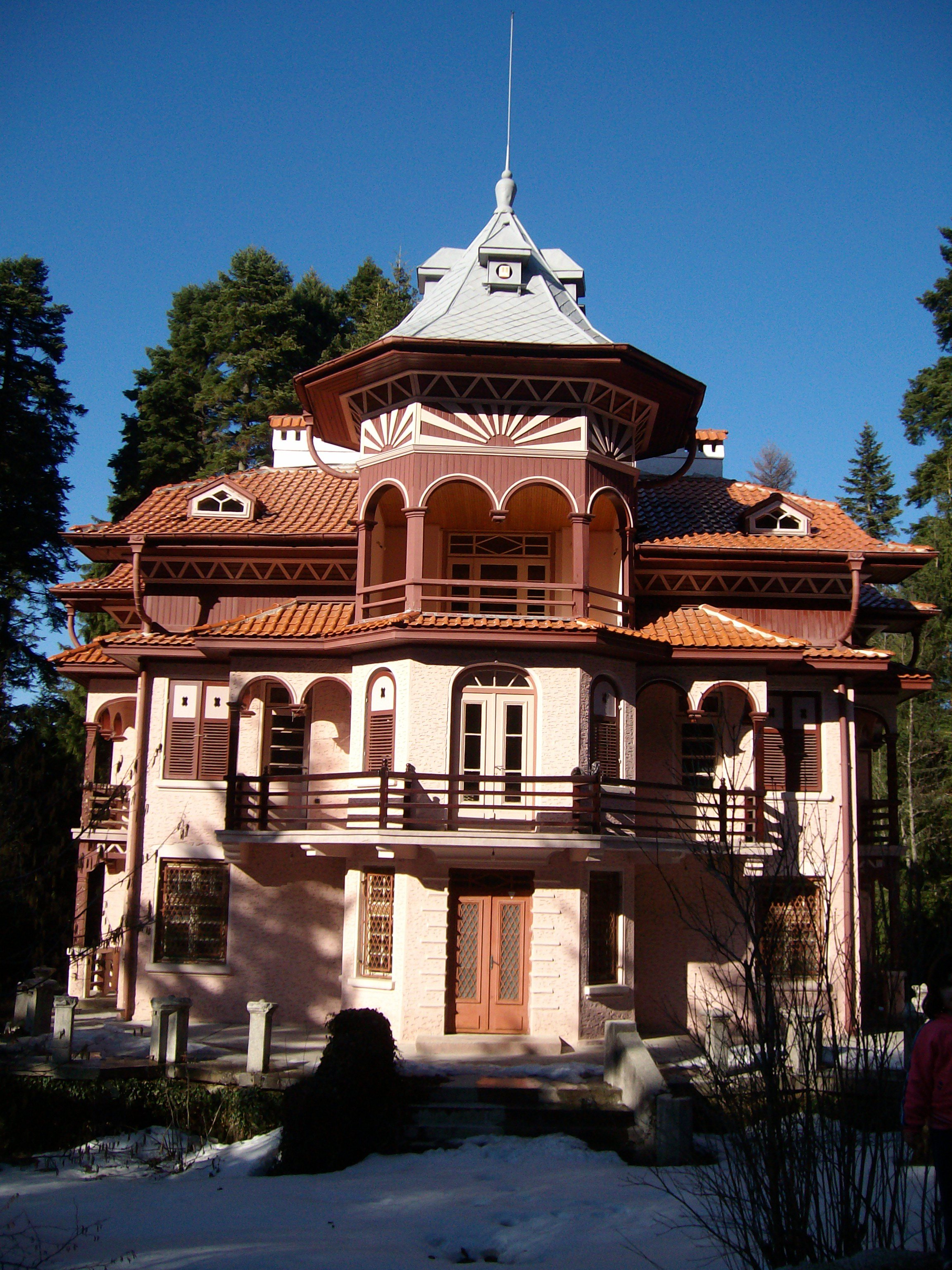 Borovets center